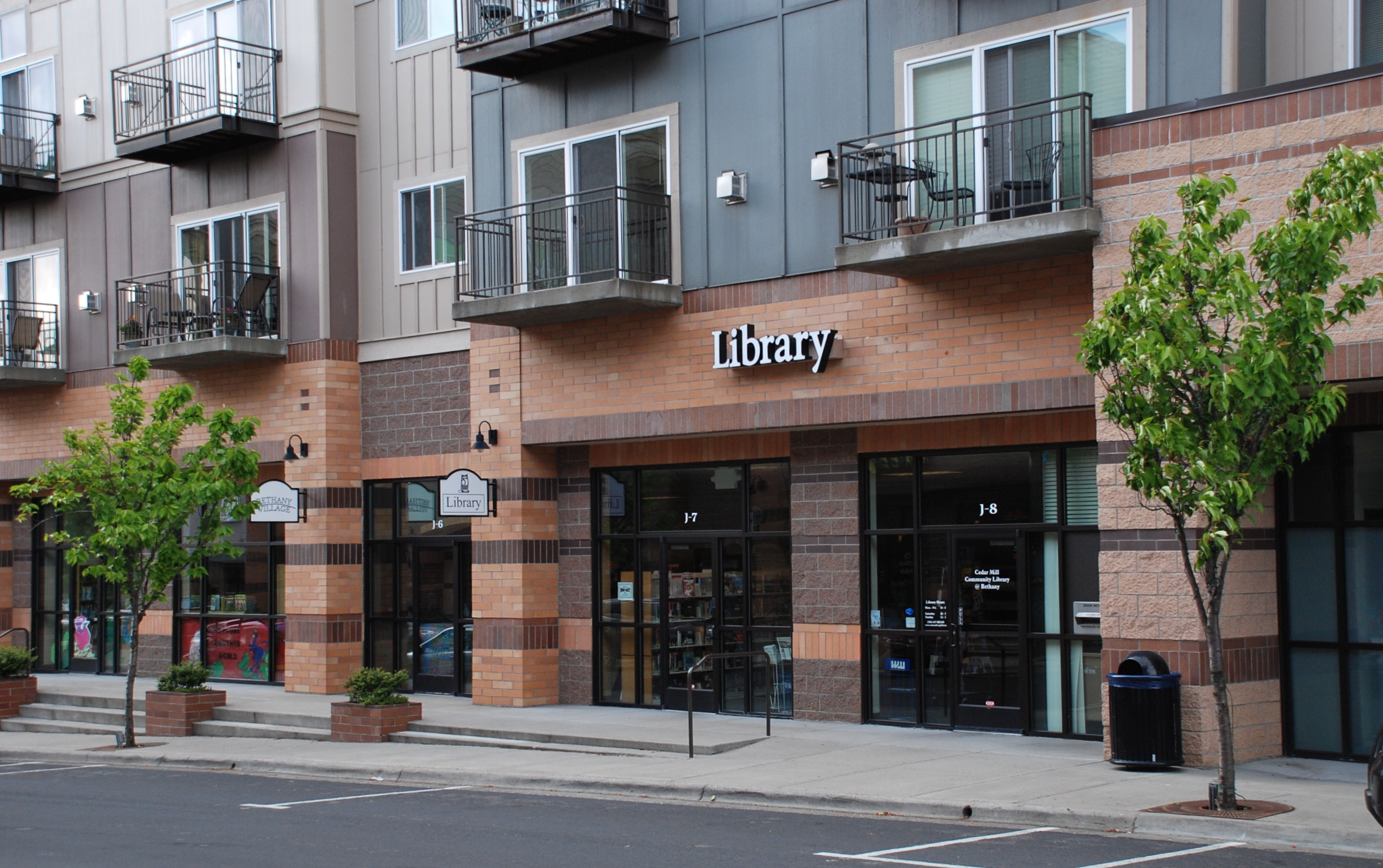 Library in the Bethany area of Washington County, in the Portland metropolitan area, Oregon. It is located in the ground floor of a three-story mixed-use building, with apartments above, in the Bethany Village development.